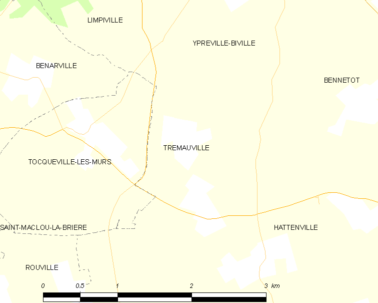 Map of French municipality Trémauville